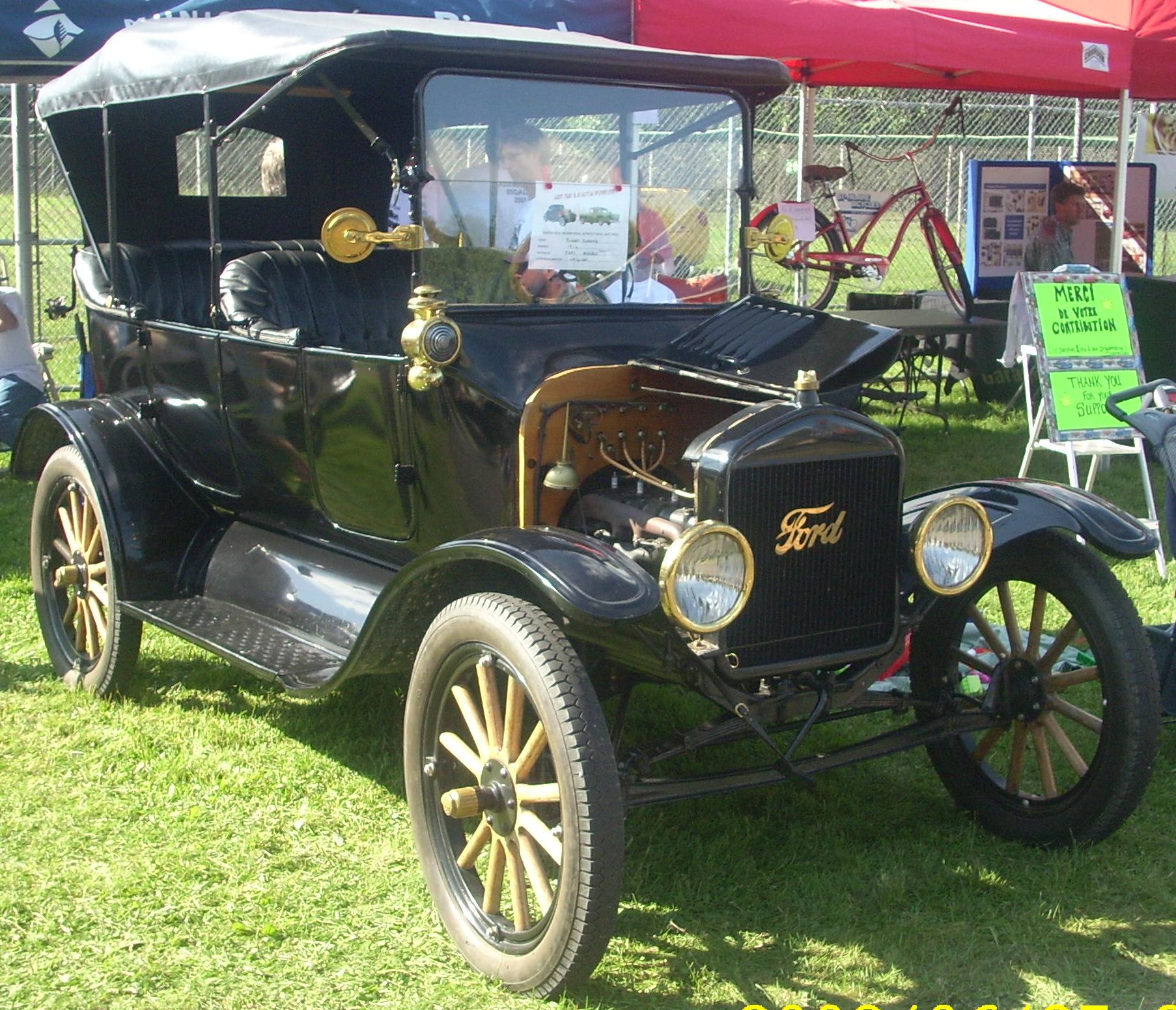 1916 Ford Model T photographed at the Rassemblement Rigaud Car Show. (Though built in 1916, this is a 1917-style model.)